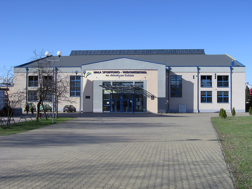 City of Ostroleka (Poland), A. Golas's Sport Hall